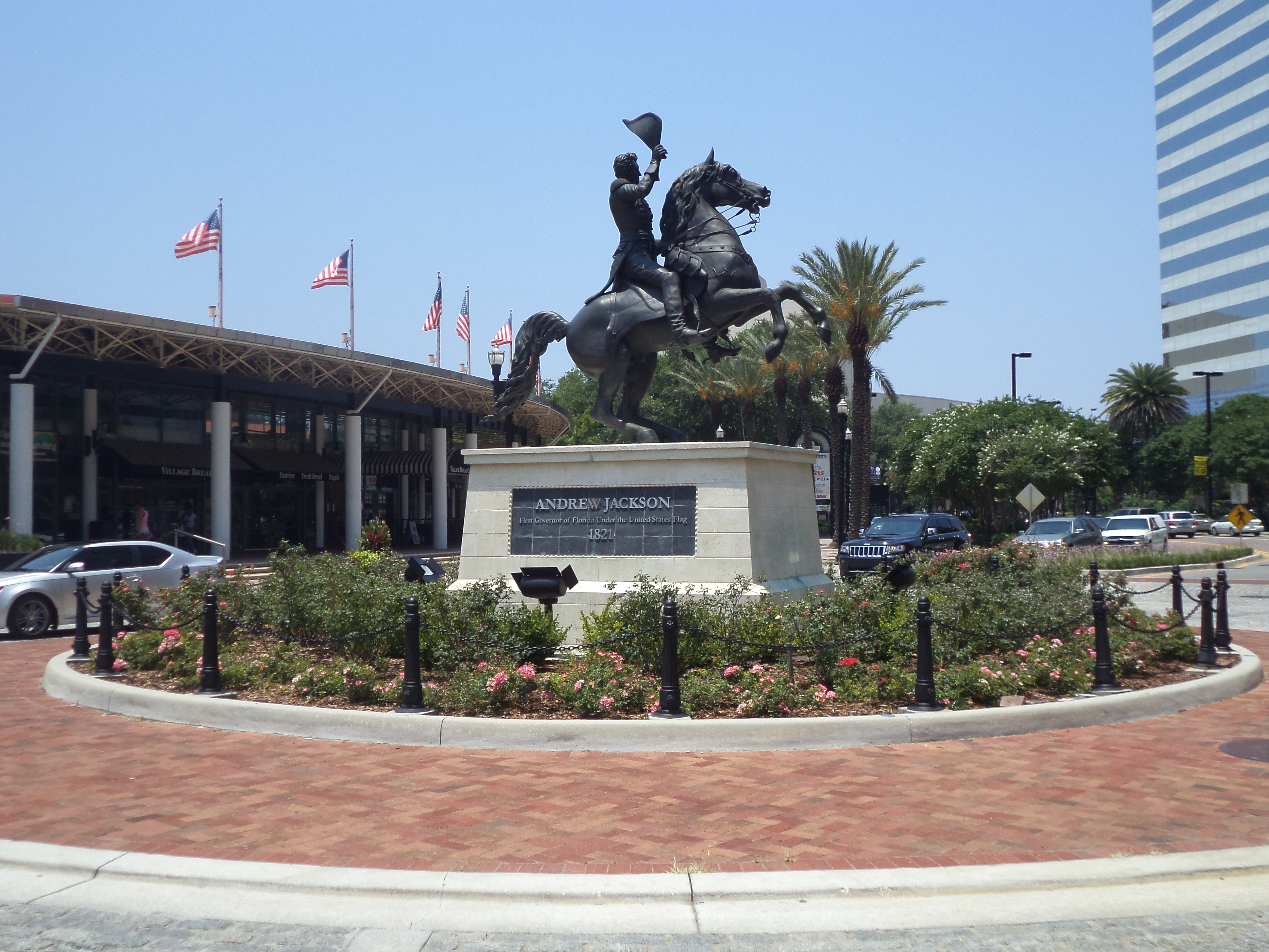 Jacksonville Landing, Jacksonville, Duval County, Florida